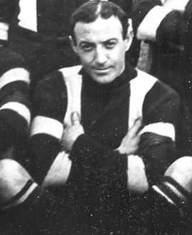 Photograph of Bob Bowden in 1906.